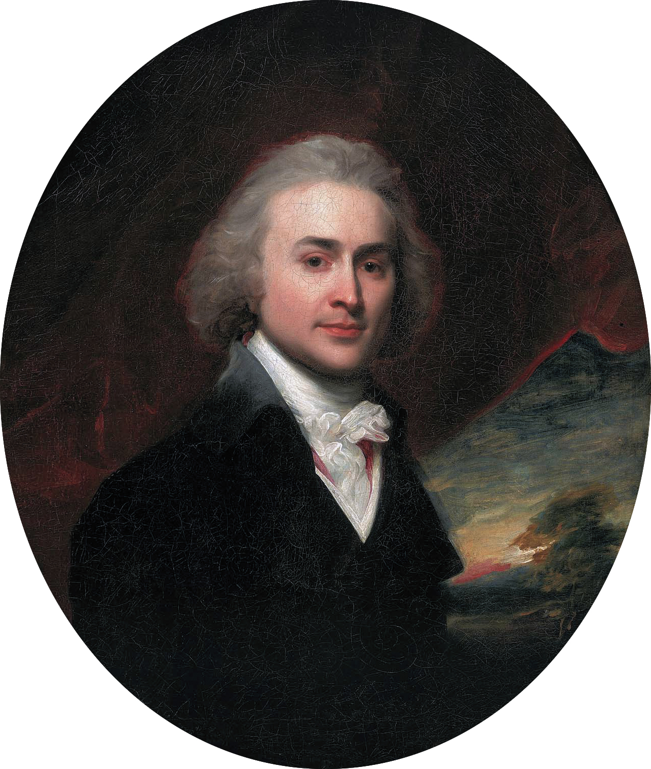 John Quincy Adams oil on canvas 76.52 x 63.5 cm 1796